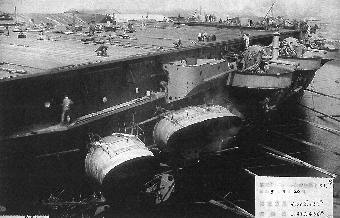 Japanese aircraft carrier Ryūjō in Yokosuka shipyard shortly before completion. Note the original (3xII) arrangement of 127mm AA-guns on starboard.